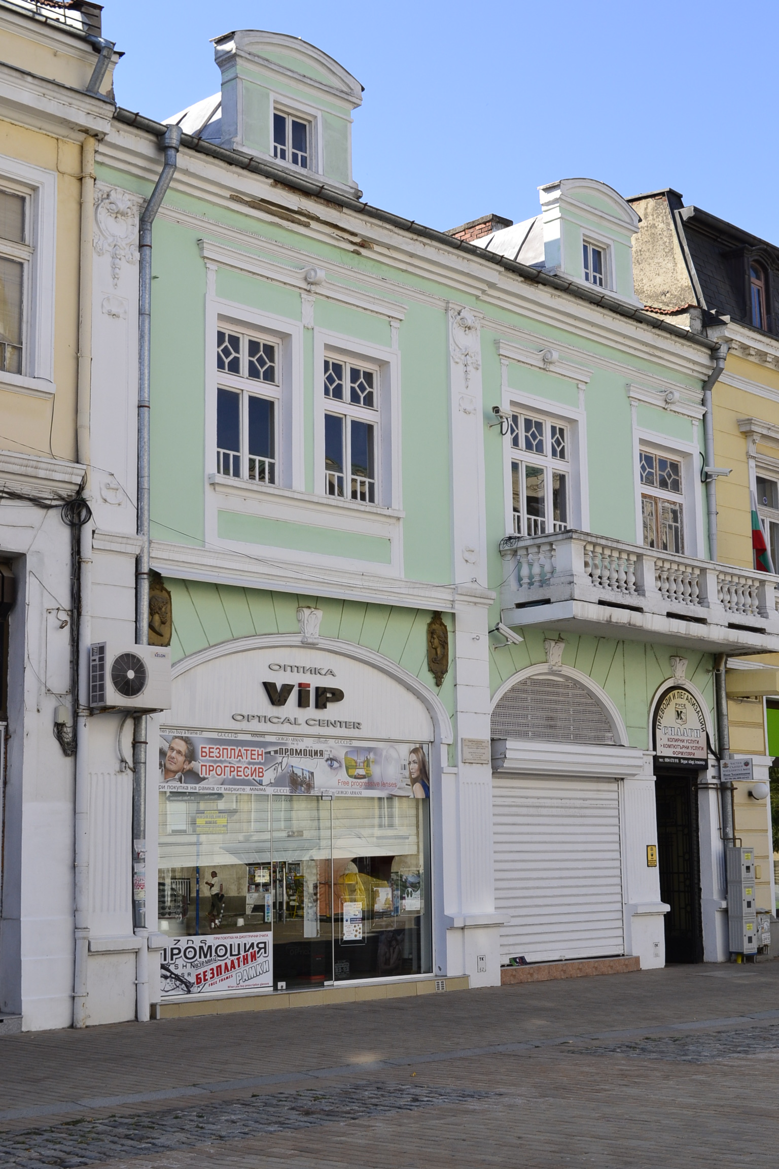 The house of Mihail Silagi as it looks today